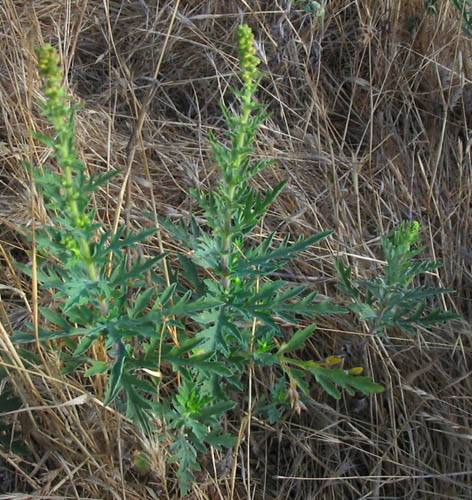 Ambrosia psilostachya at Rancho Sierra Vista/Satwiwa: Satwiwa loop trail, Santa Monica Mountains National Recreation Area, California, USA.